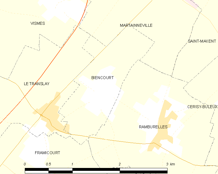 Map of French municipality Biencourt